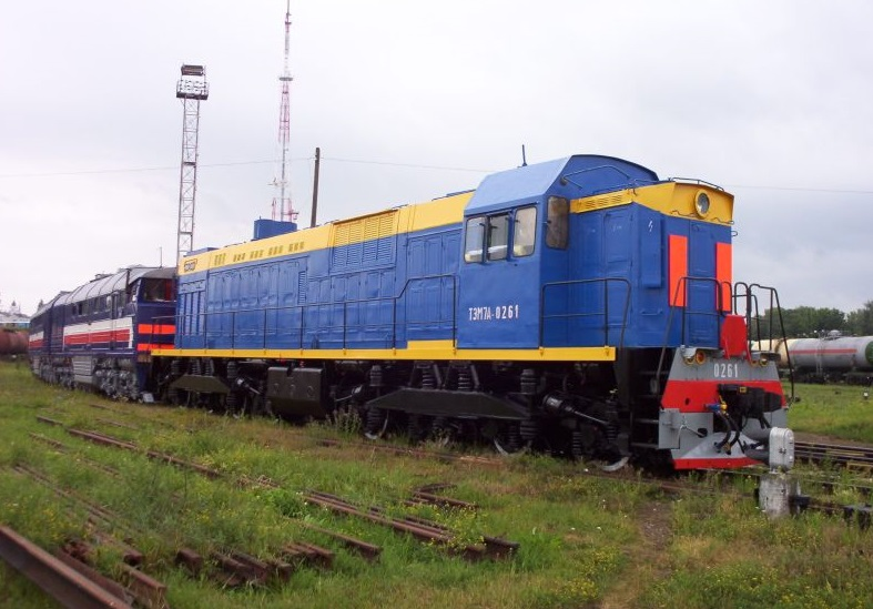 tem7-dlrz